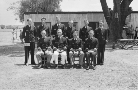 AWM caption: "Group portrait of German Officer prisoners of war (POWs) interned in No. 13 POW Group at Dhurringile near Murchison. They are survivors of the German Auxiliary Cruiser Kormoran which was sunk in November 1941 in an engagement with HMAS Sydney. This resulted in the Sydney being sunk with the loss of the entire crew. Back row, left to right: Oberleutnant zur See Joachim Greter; Oberleutnant zur See Edmond Schafer; Oberleutnant Freiherr Reinhold von Malapert; Oberleutnant Fritz Skeries; Oberleutnant Joachim von Gosseln; Oberleutnant Wilhelm Brinkmann. Front row: Kapitanleutnant Henry Meyer; Kapitanleutnant Kurt Foerster; Fregattenkapitan Theodor Detmers (Commanding Officer); Oberleutnant Heinz Messerschmidt."